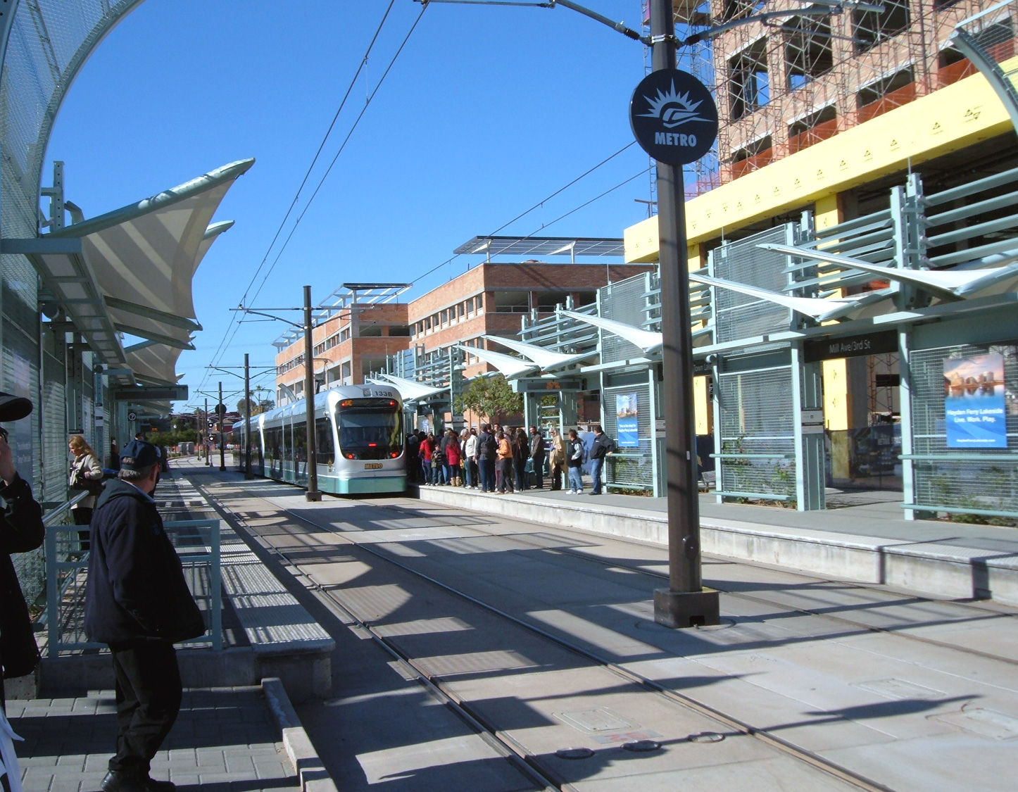 Photograph of the Downtown Tempe/Town Lake (or 3rd Street at Mill) Station of METRO Light Rail that serves the Phoenix area, Arizona, USA. This photograph was taken during the light rail's grand opening celebration on December 27, 2008.